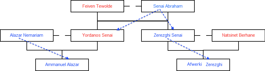 A hypothetical Eritrean family tree.